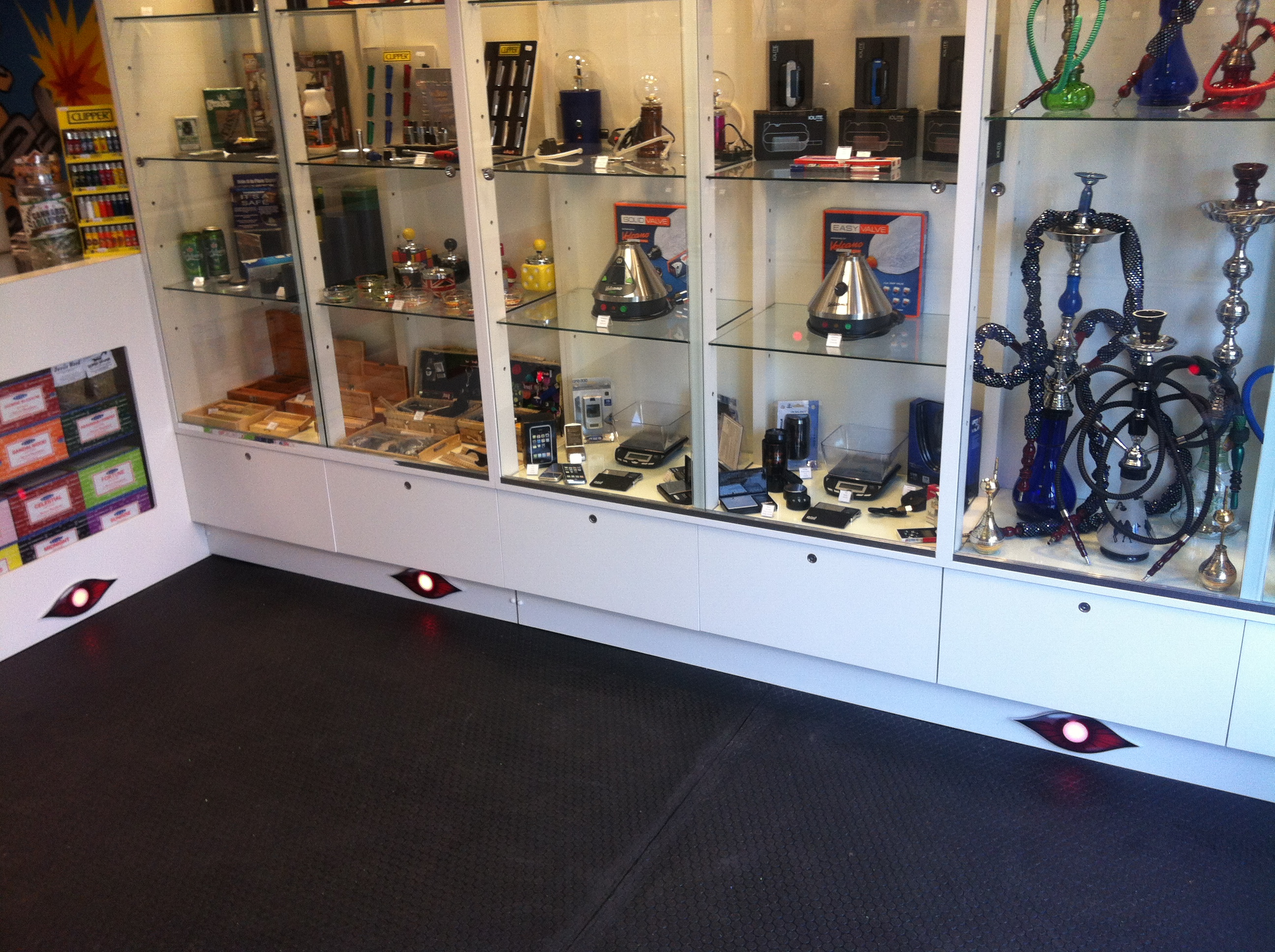 Red Eye Headshop inside shop